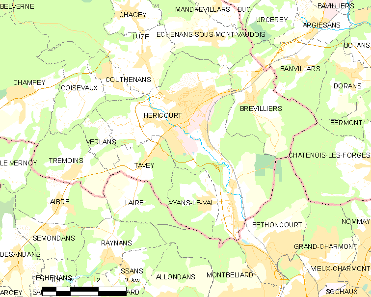 Map of French municipality